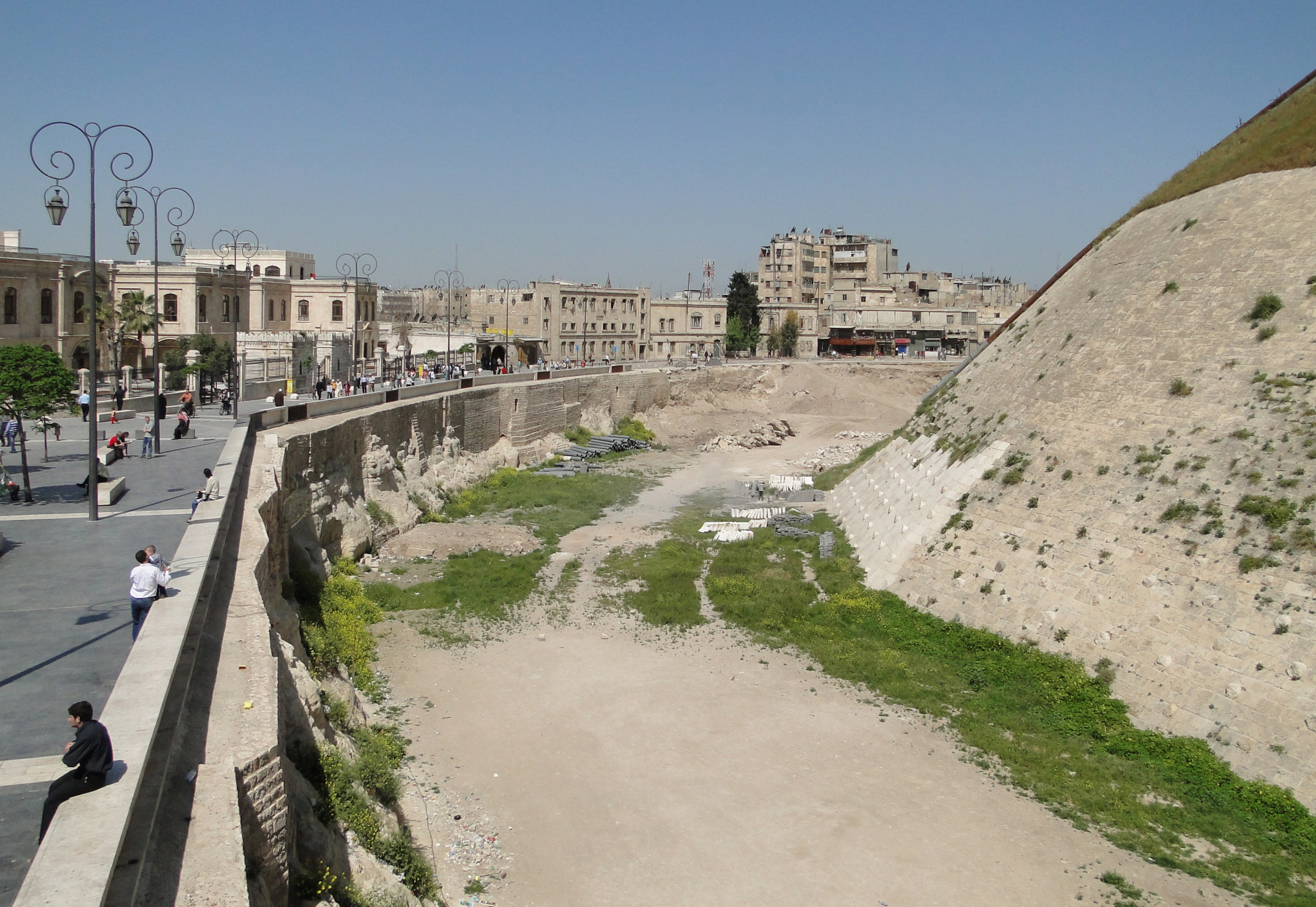 Moat of the Citadel of Aleppo, Syria